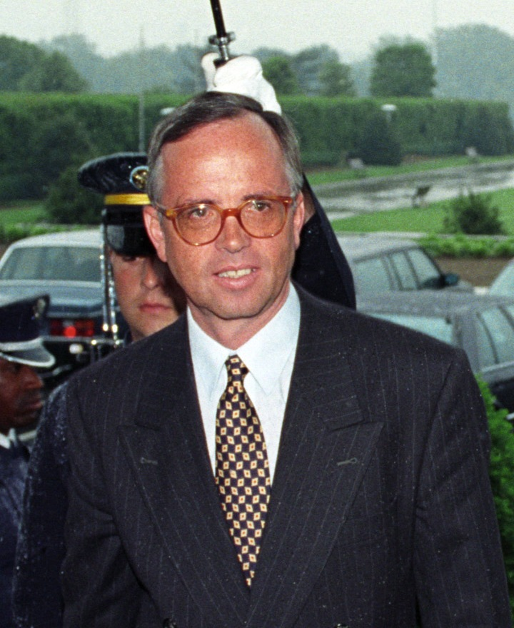 Werner Fasslabend at the River Entrance of the Pentagon, Washington, D.C., on May 17, 1993.